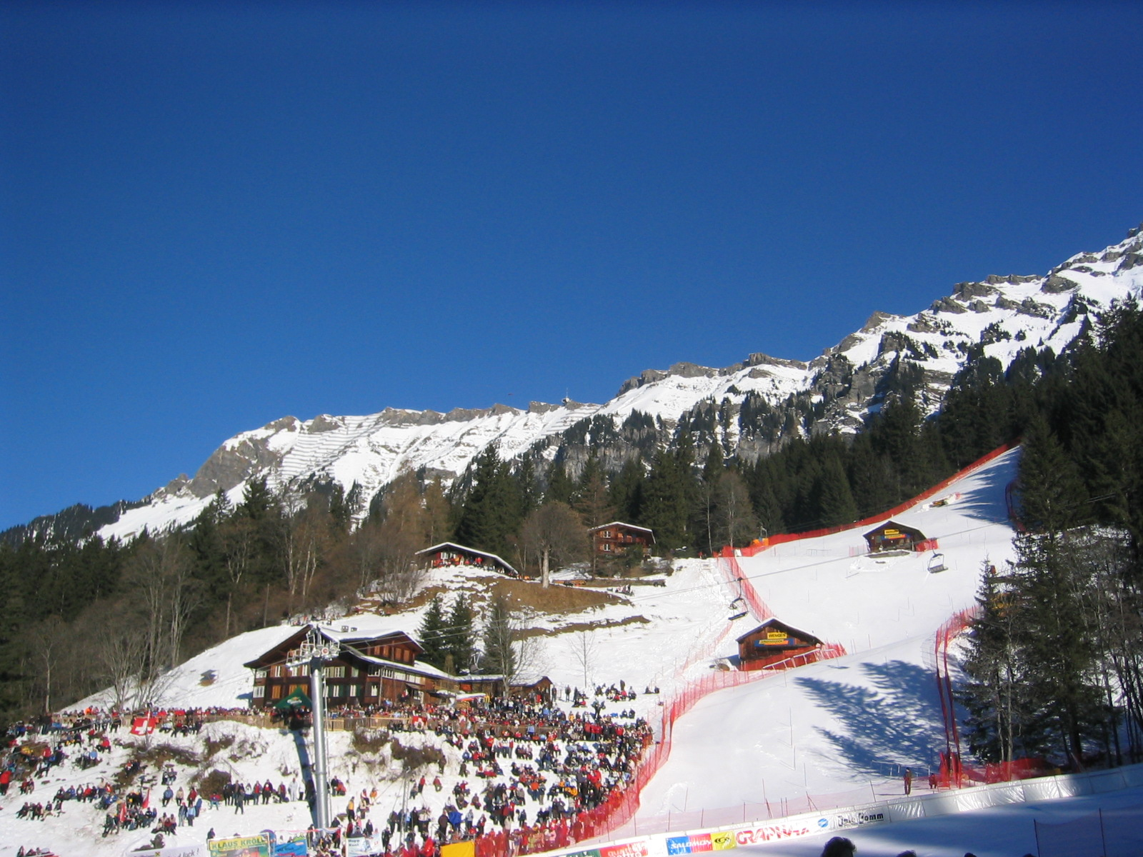 Wengen